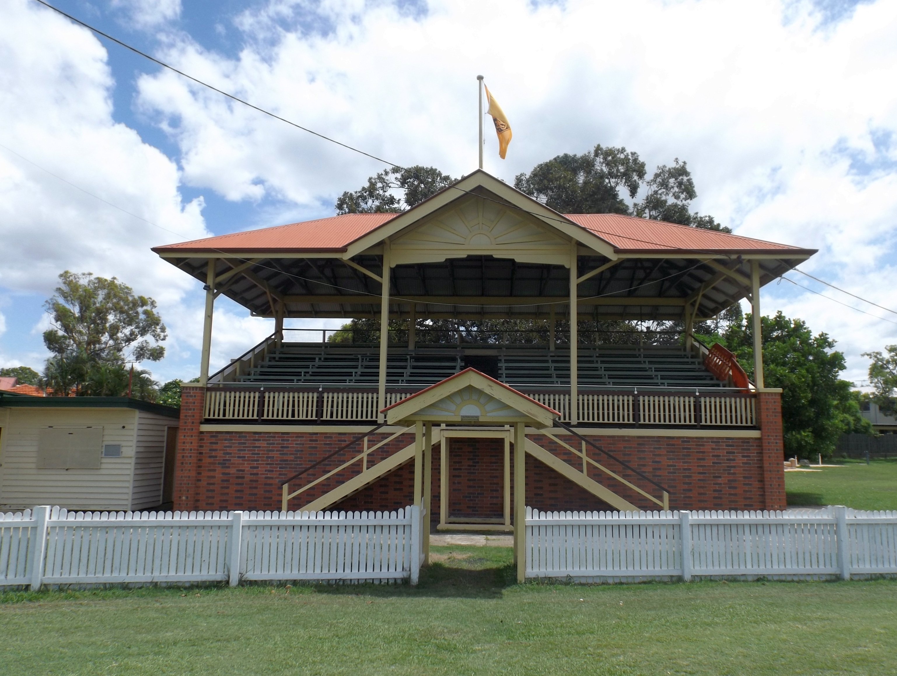 Photo of Graceville Memorial Park grandstand at Graceville, Brisbane, Queensland, Australia.